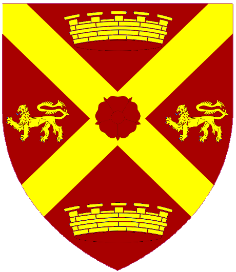 Shield of arms of The Lord Napier of Magdala